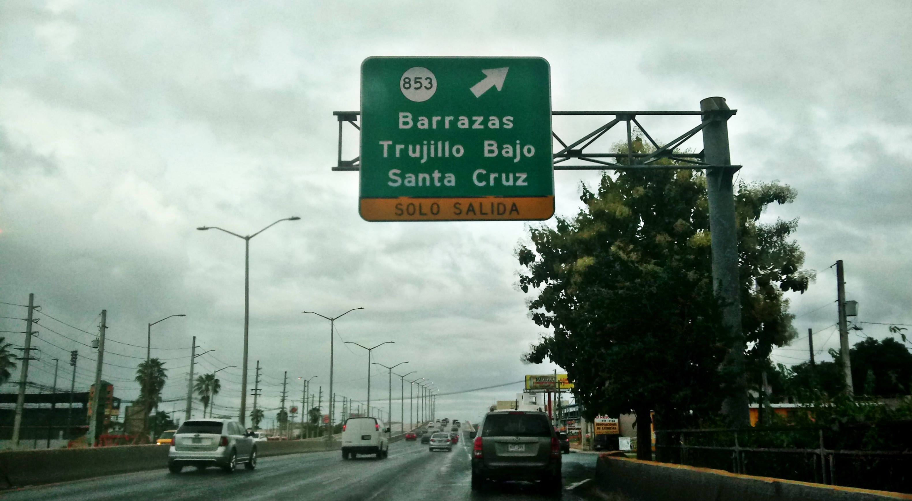 Exit sign on PR-3 for Barrazas, Trujillo Bajo and Santa Cruz barrios in Carolina, Puerto Rico